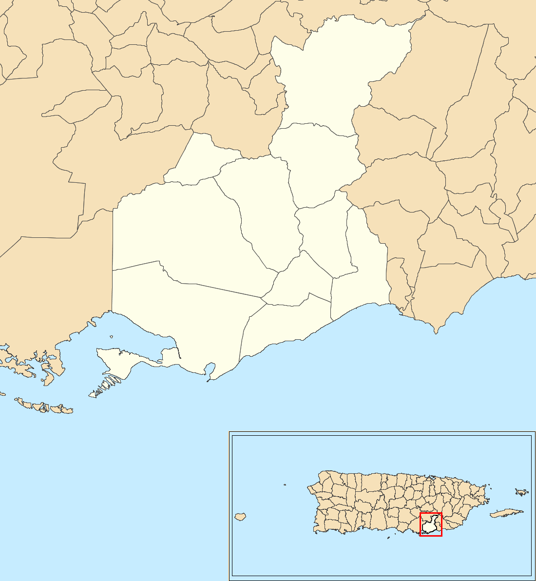 Barrios in the municipality